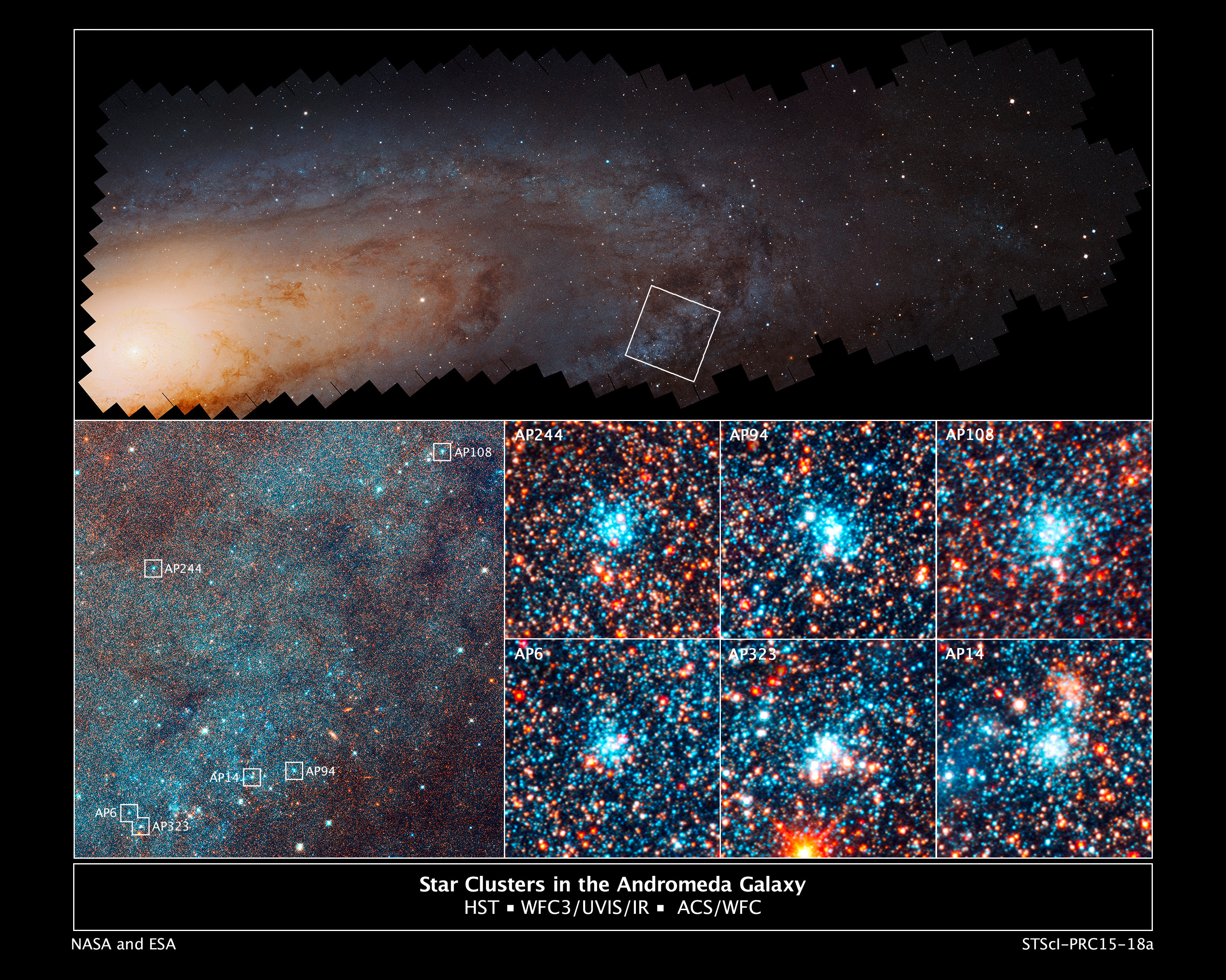 [Top] - This is a Hubble Space Telescope mosaic of 414 photographs of the nearest major galaxy to our Milky Way galaxy, the Andromeda galaxy (M31). The vast panorama was assembled from nearly 8,000 separate exposures taken in near-ultraviolet, visible, and near-infrared light. Embedded within this view are 2,753 star clusters. The view is 61,600 light-years across and contains images of 117 million stars in the galaxy's disk. [Bottom-Left] - An enlargement of the boxed field in the top image reveals myriad stars and numerous open star clusters as bright blue knots. Hubble's bird's-eye view of M31 allowed astronomers to conduct a larger-than-ever sampling of star clusters that are all at the same distance from Earth, 2.5 million light-years. The view is 4,400 light-years across. [Bottom-Right] - This is a view of six bright blue clusters extracted from the field. Hubble astronomers discovered that, for whatever reason, nature apparently cooks up stars with a consistent distribution from massive stars to small stars (blue supergiants to red dwarfs). This remains a constant across the galaxy, despite the fact that the clusters vary in mass by a factor of 10 and range in age from 4 million to 24 million years old. Each cluster square is 150 light-years across.